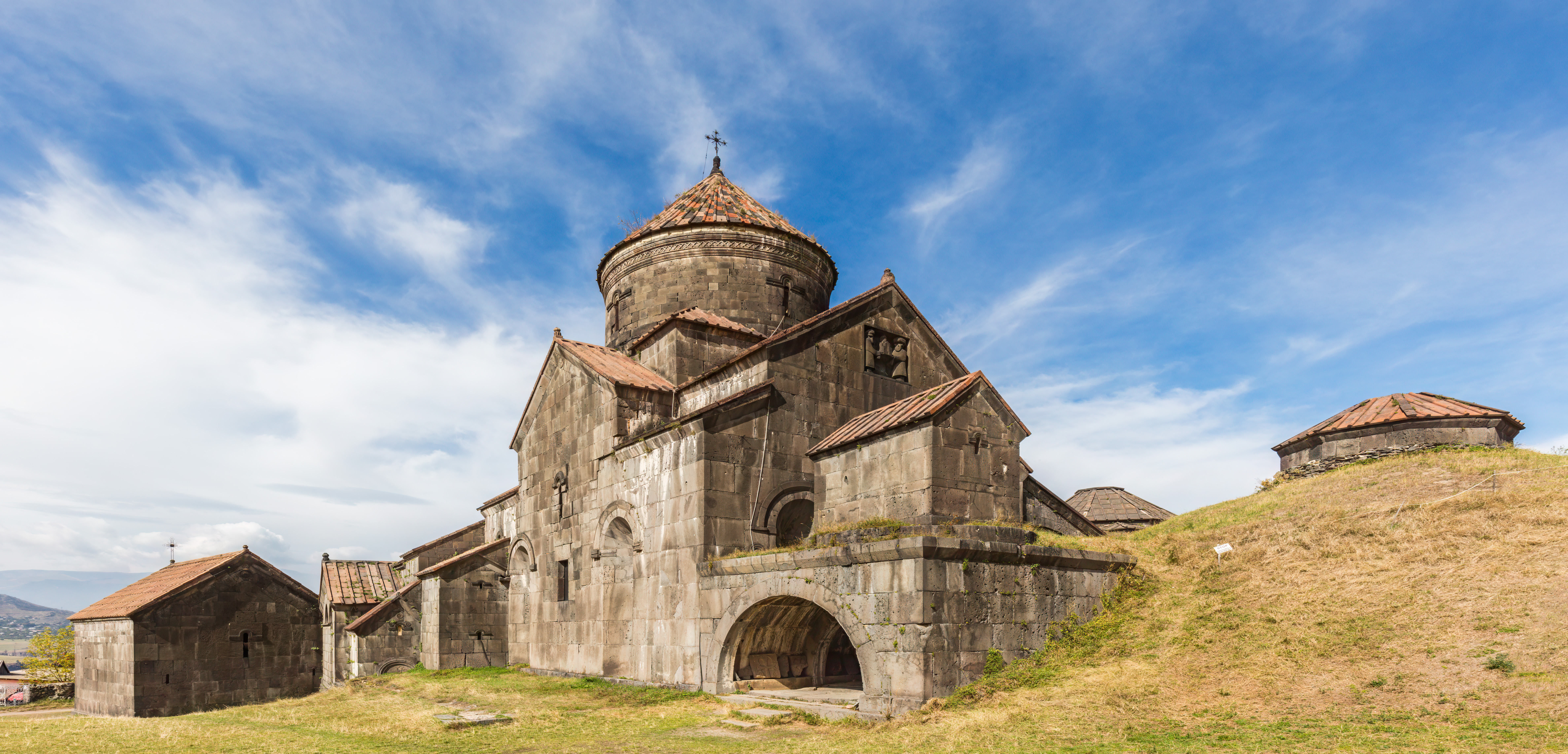 Haghpat Monastery, Armenia